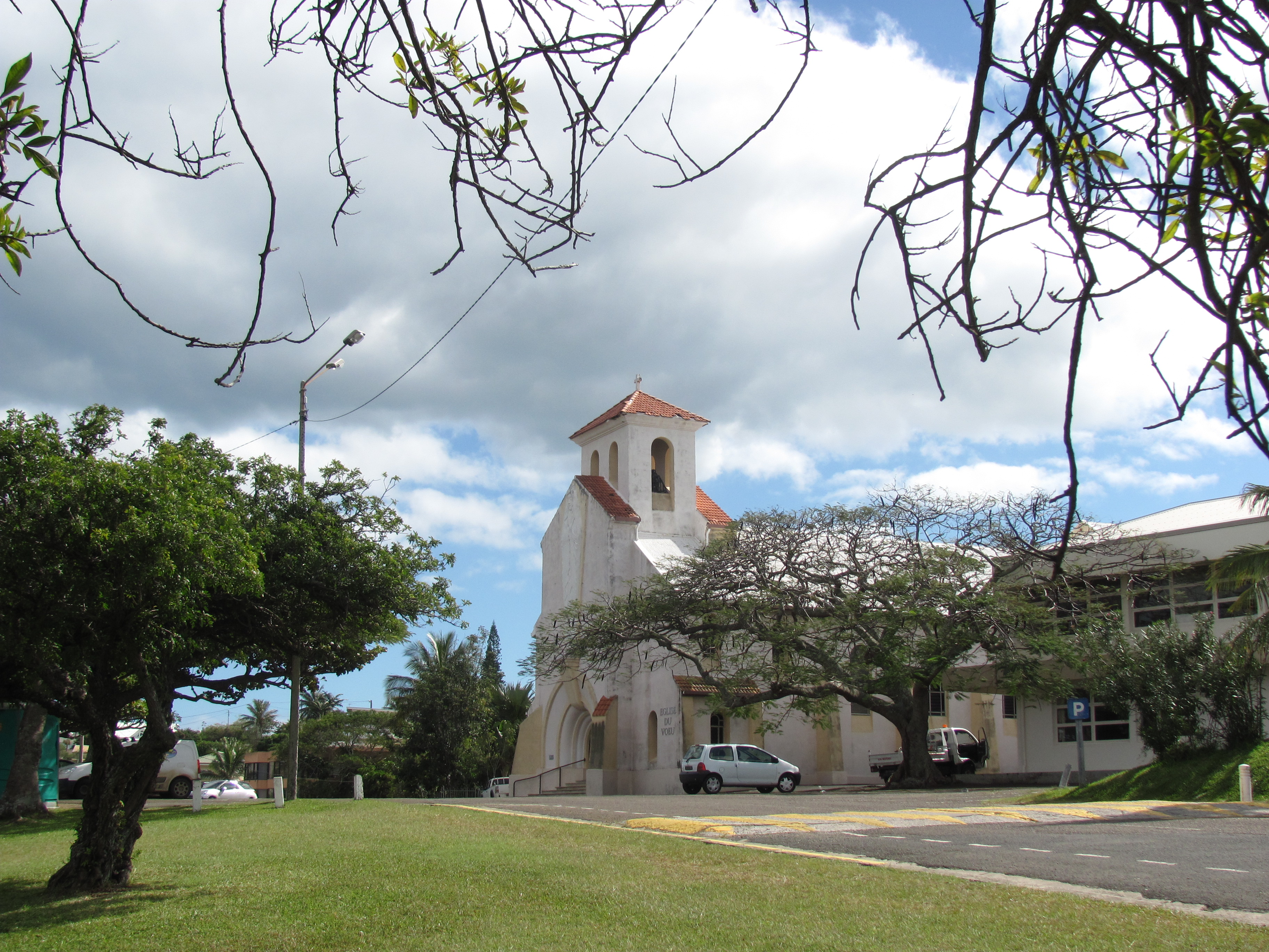 Church "Eglise du Voeu", Nouméa, New Caledonia